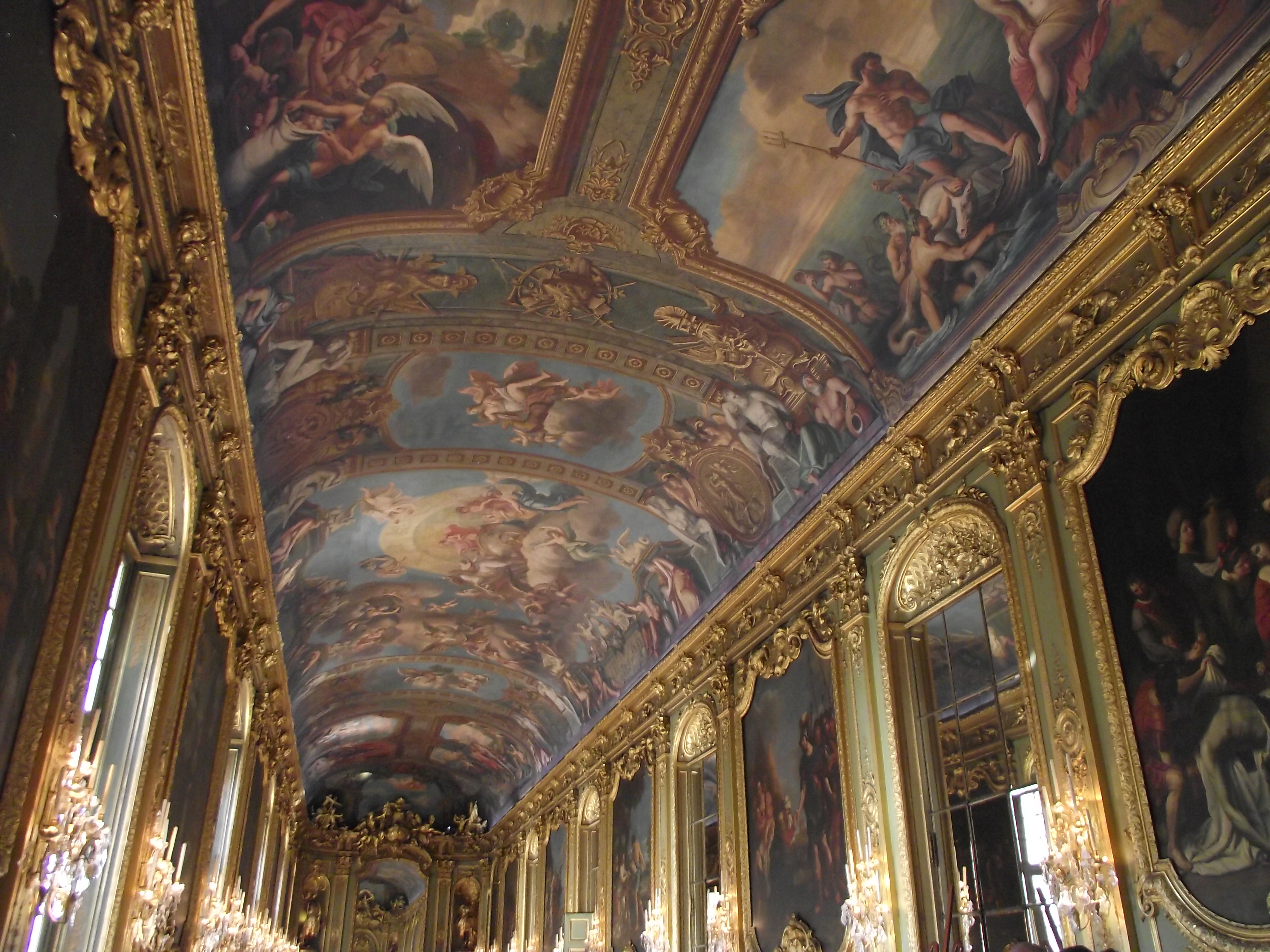 Paris, Hôtel de Toulouse, Banque de France, Galerie Dorée, R.de Cotte e Vassé, 1713